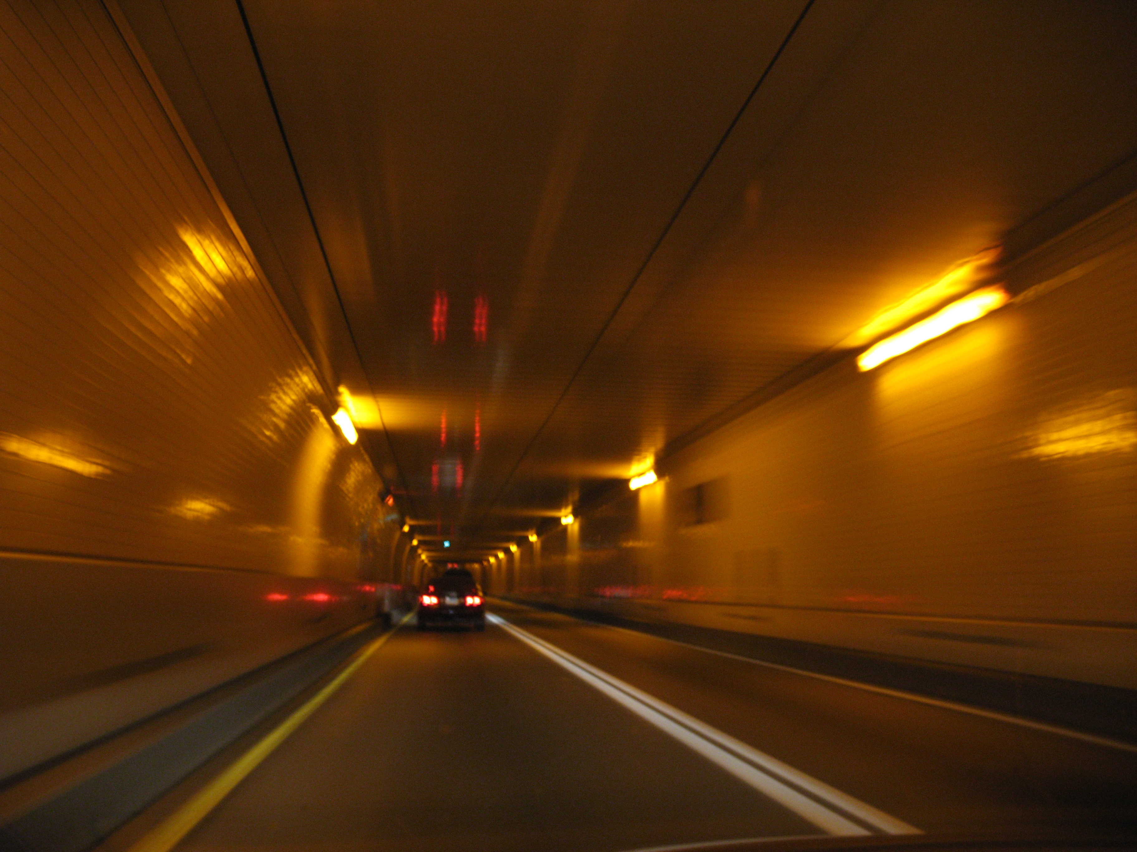 I-895 tunnel, traveling westbound, Baltimore, MD, USA - OpenStreetMap(Info)